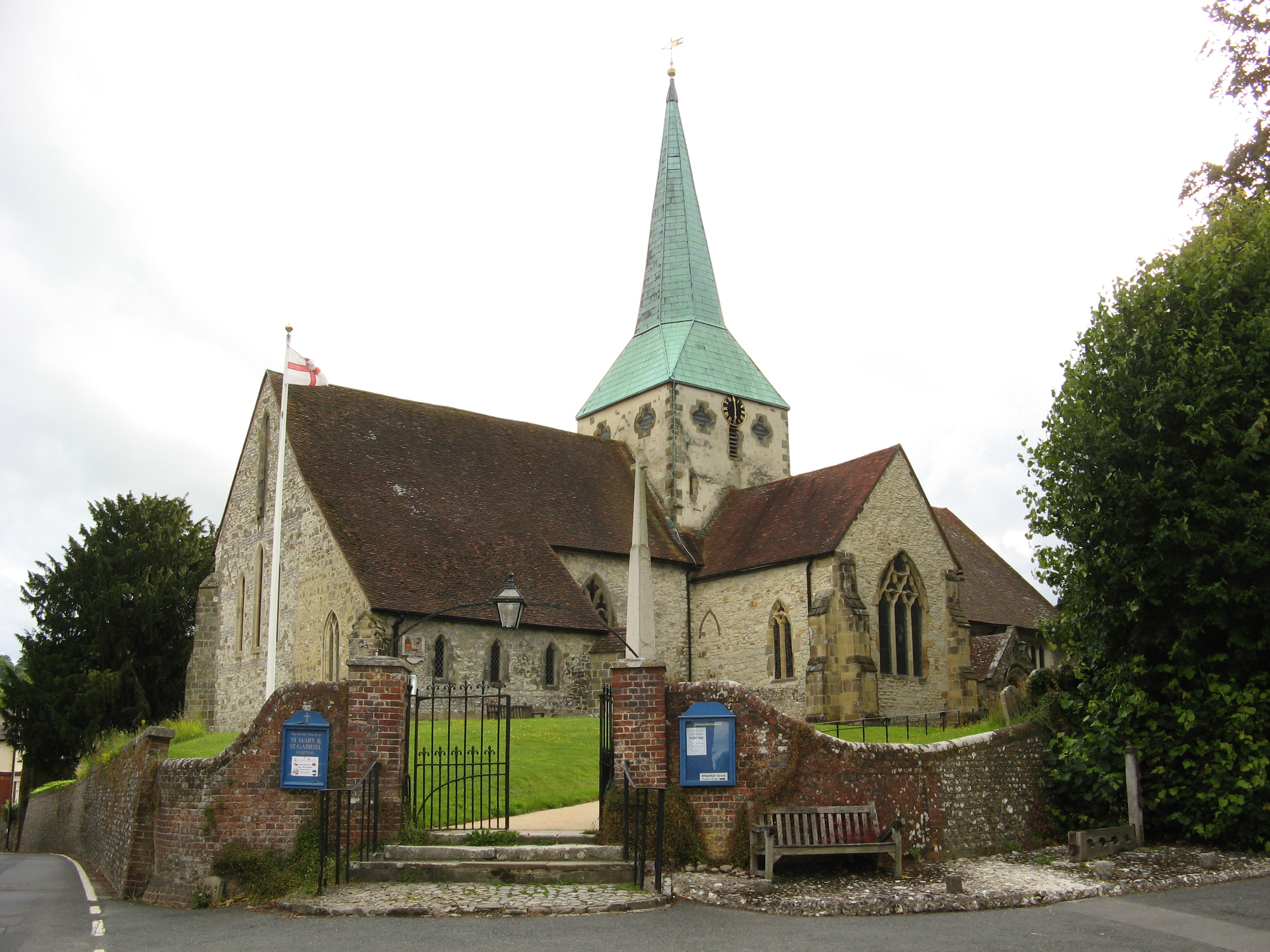 The Parish Church of St Mary & St Gabriel Harting (wording on sign by gate), in the village of South Harting. The tall World War I memorial inside the gate is by Eric Gill.